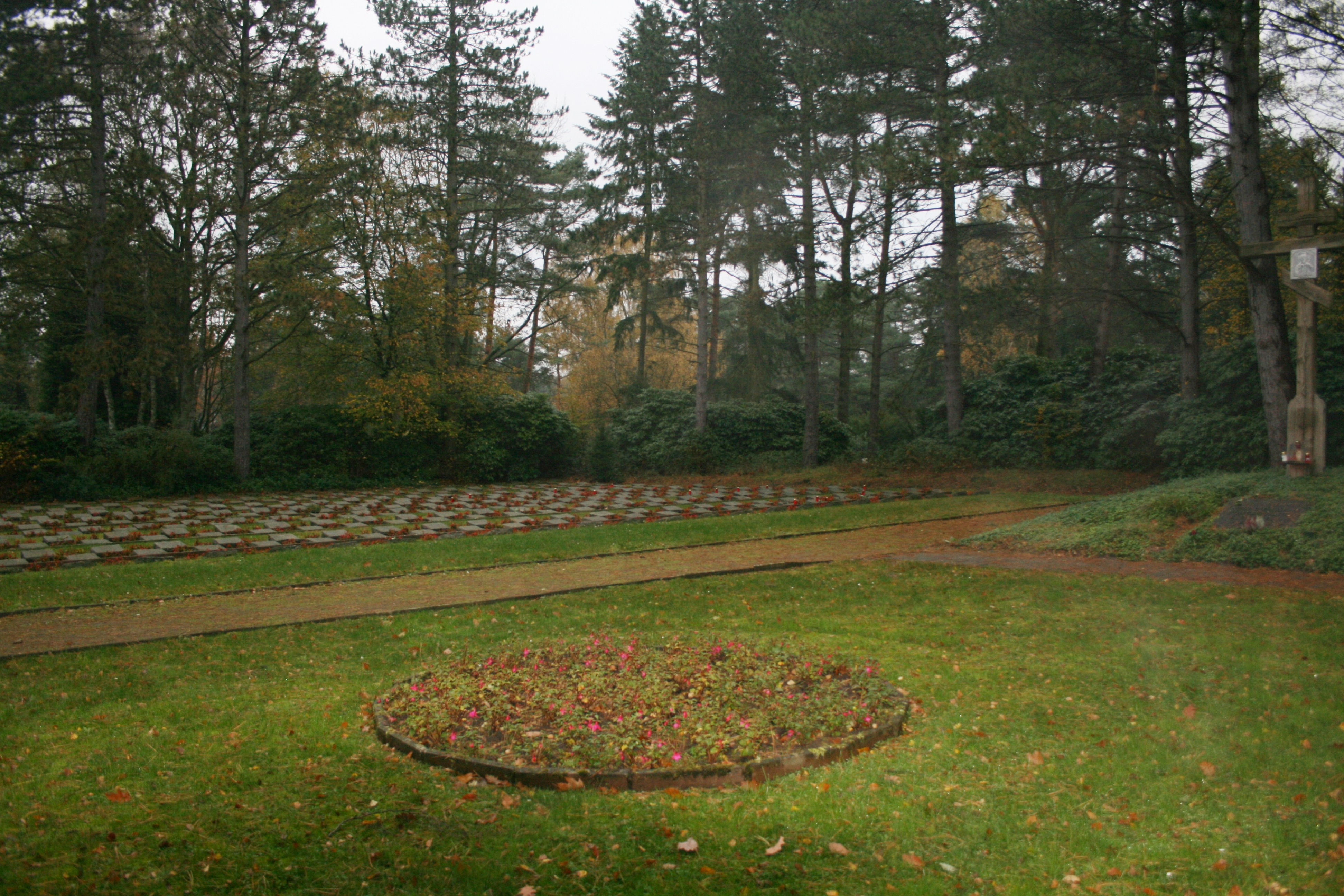 Cemetery Bergedorf: Tombs of Russian prisoners of war who died in the KZ Neuengamme